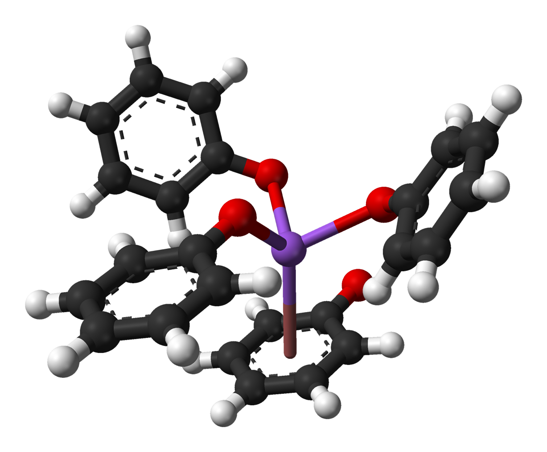 Ball-and-stick model of part of the crystal structure of sodium phenoxide, Na[OPh]. X-ray crystallographic data from Chem. Ber. (1997) 130 1461-1465.